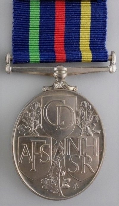 Reverse of the British Civil Defence Medal, until 1968